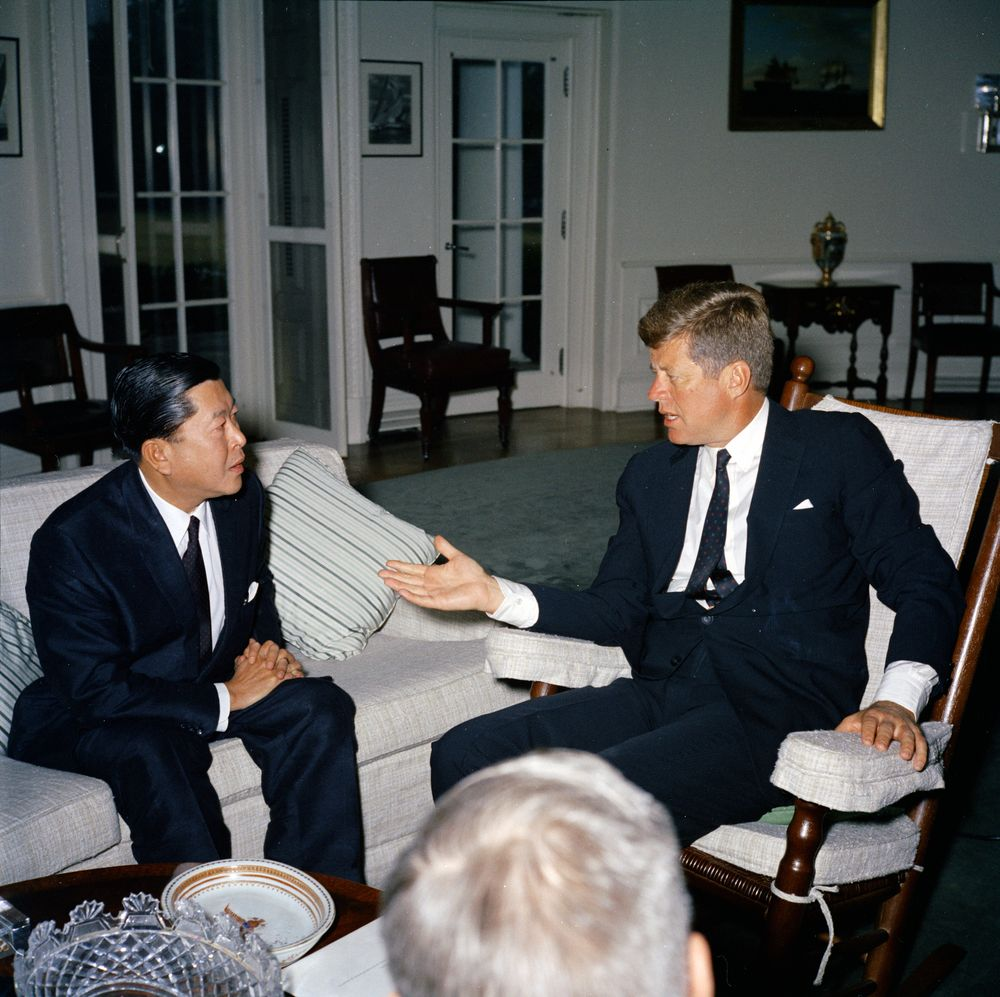 Meeting with Thanat Khoman, Foreign Minister of Thailand, 10:35AM